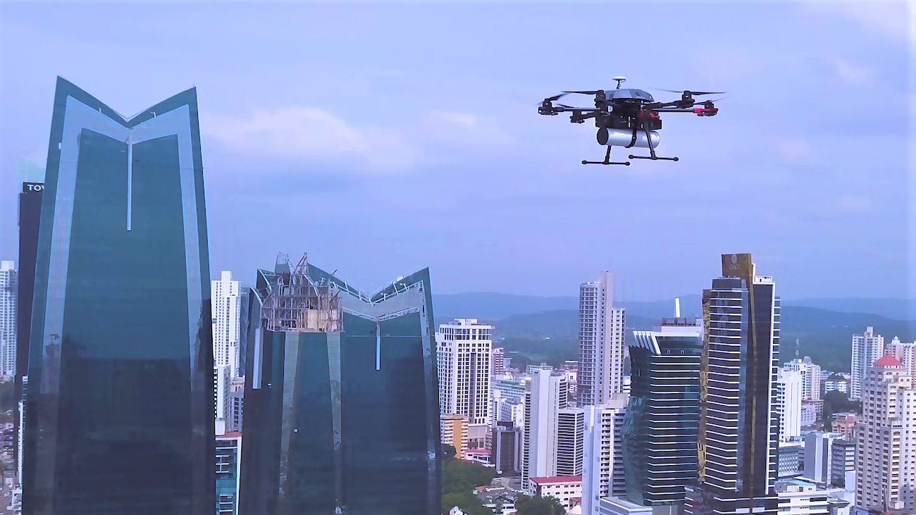 Flytrex delivery drone flying over skyscrapers